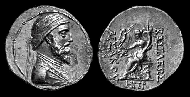 Coin of Artabanus I of Parthia. Reverse shows a seated goddess (perhaps Demeter) holding Nike and a cornucopia. Text reads ΒΑΣΙΛΕΩΣ ΑΡΣΑΚΟΥ (King of the Arsacid Dynasty). The date ΗΠΡ is 188 of the Seleucid era, that is, 125 BC–124 BC.